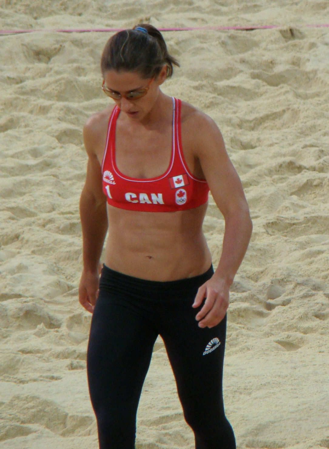 Annie Martin competing against the Russian team at the 2012 Summer Olympics.